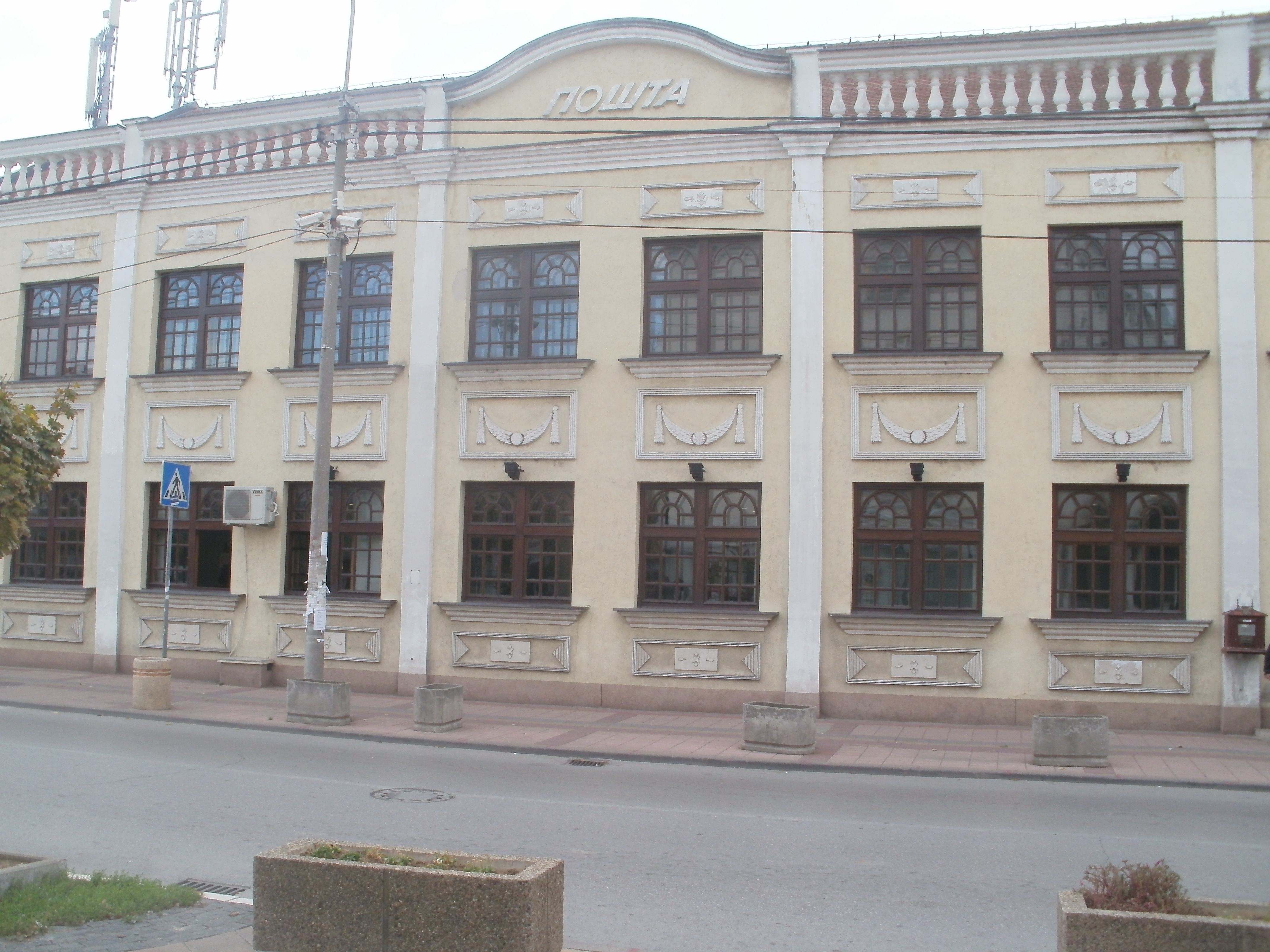 Пошта Обреновац